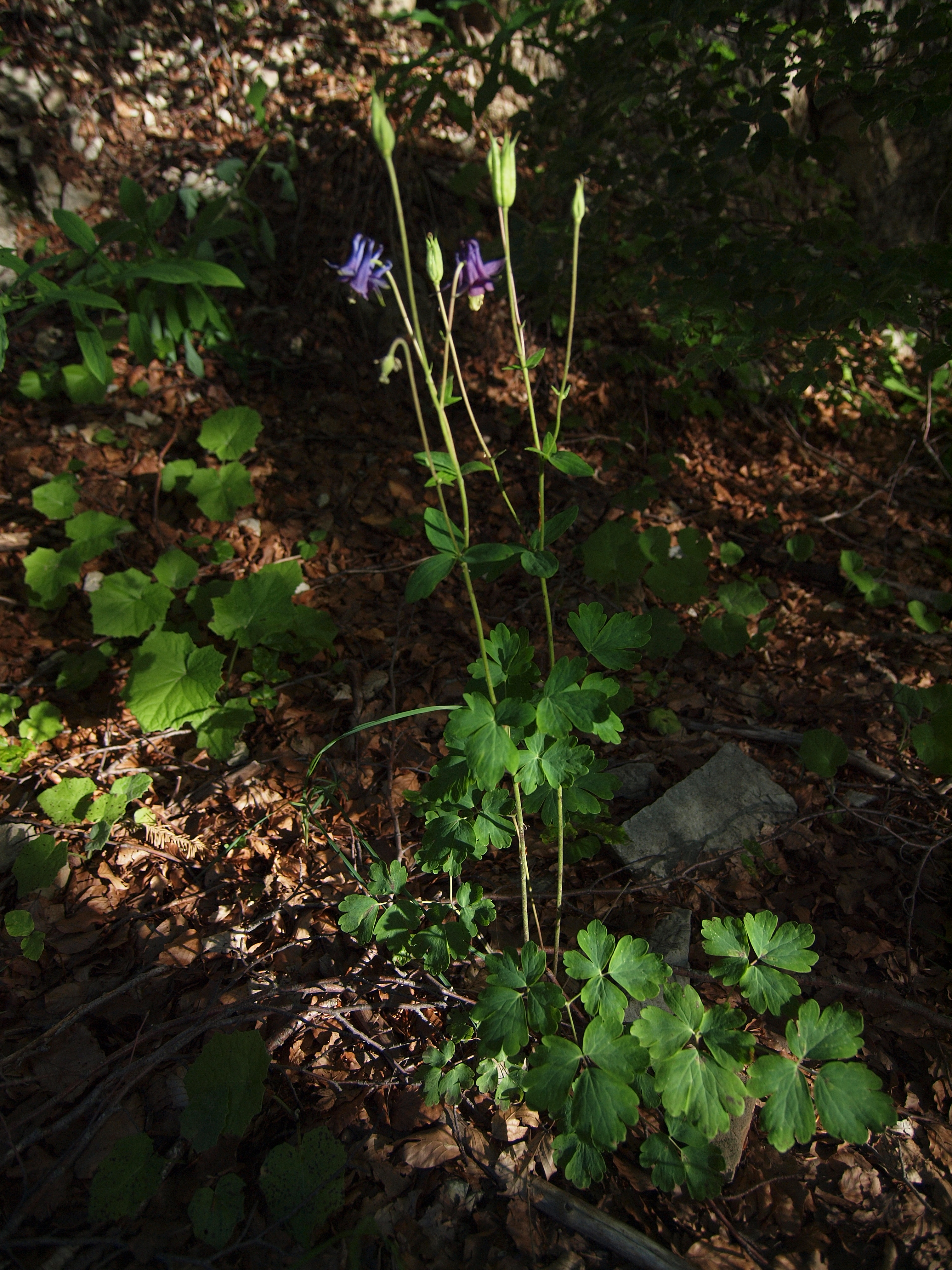 Aquilegia grata leg P.Cikovac in Dinaric fir-beech forests Bijela gora Montenegro